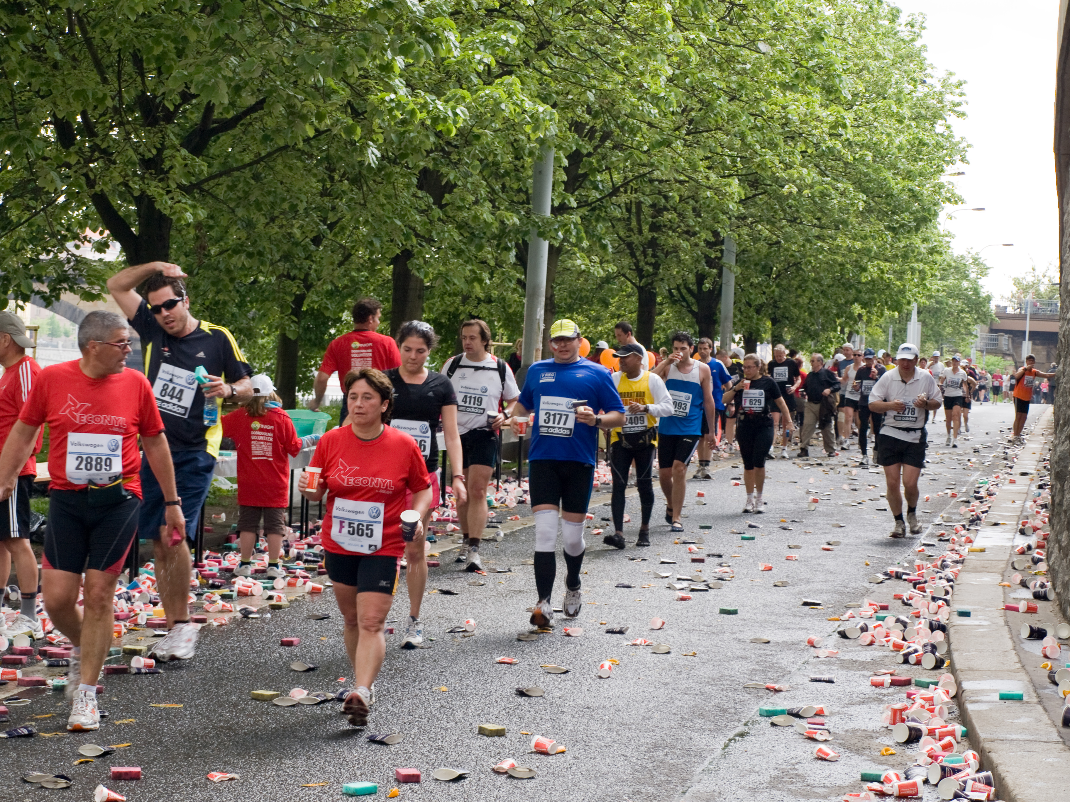 Nábřežní street, cca 31 km, Prague International Marathon 2010